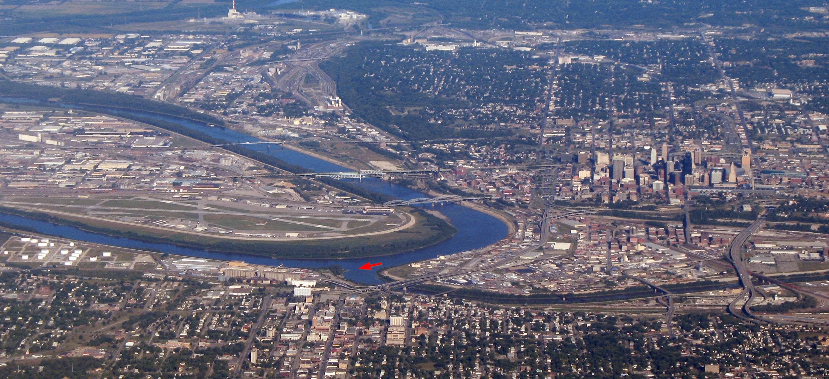 Kaw Point and Kansas City, looking slightly north of due east. Photo by poster in September 2007.